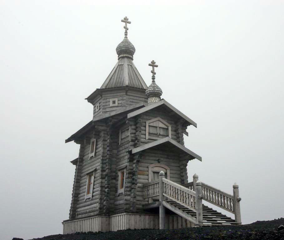 A view of Trinity Church.